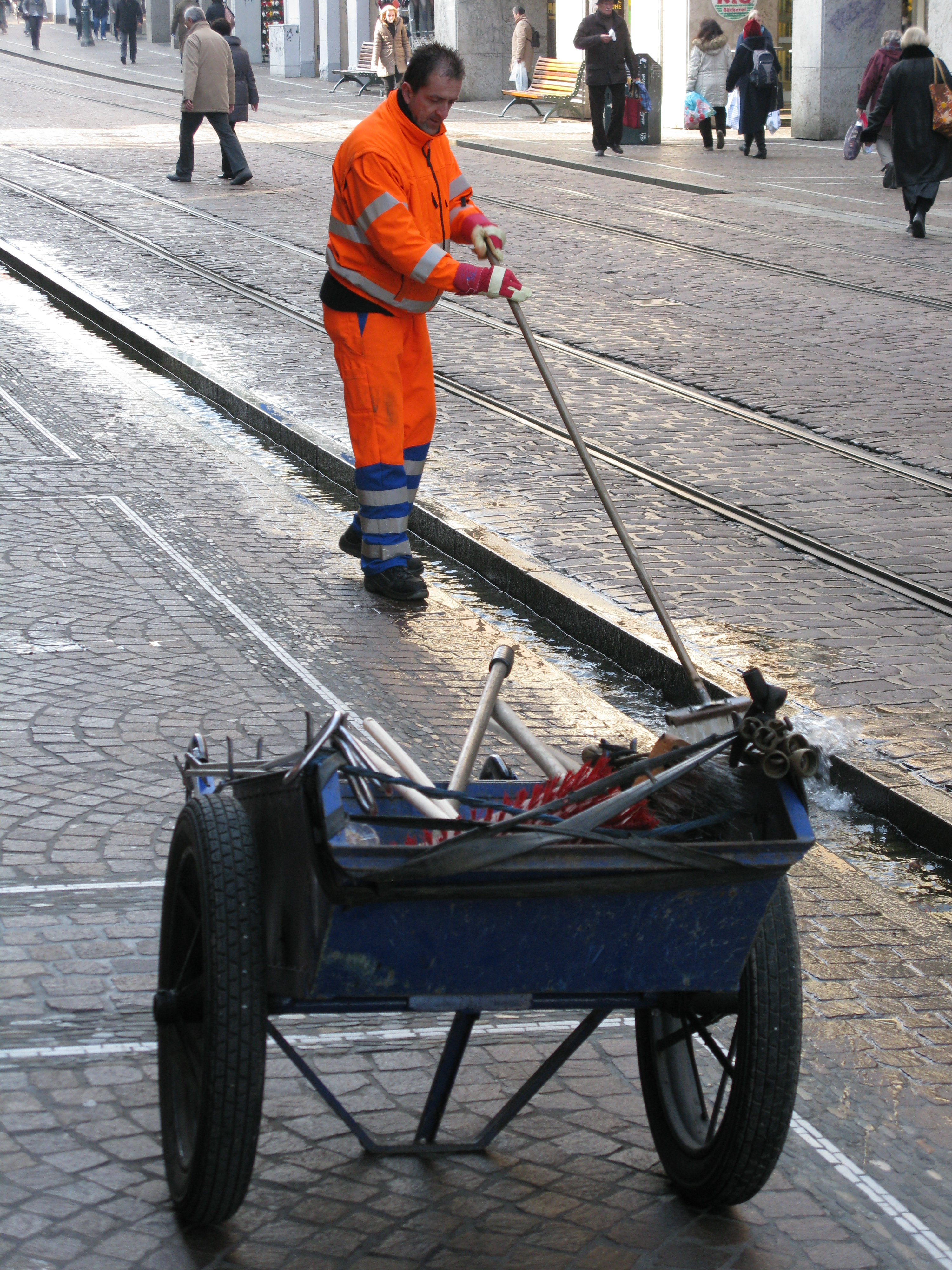 cleaning the Bächle